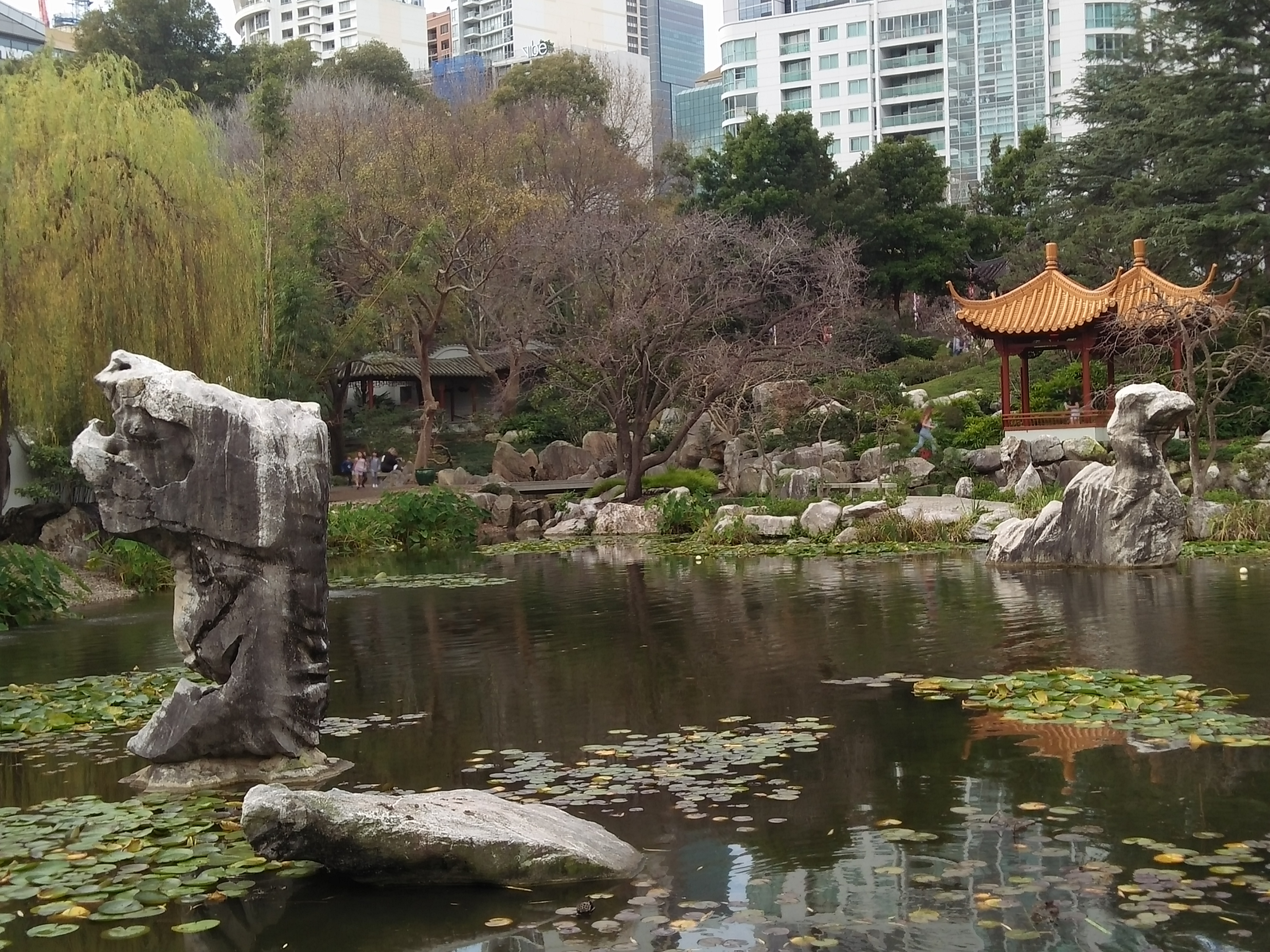 Shows two rock sculptures in a pond surrounded by greenery at the Chinese Garden of Friendship in Sydney.